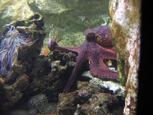 Aquarium of Lyon in France - A female octopus taking care of her eggs